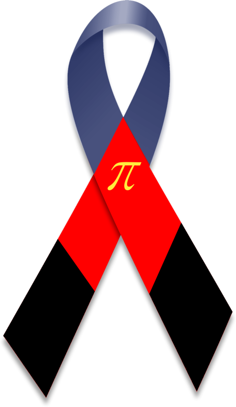 Polyamory Ribbon